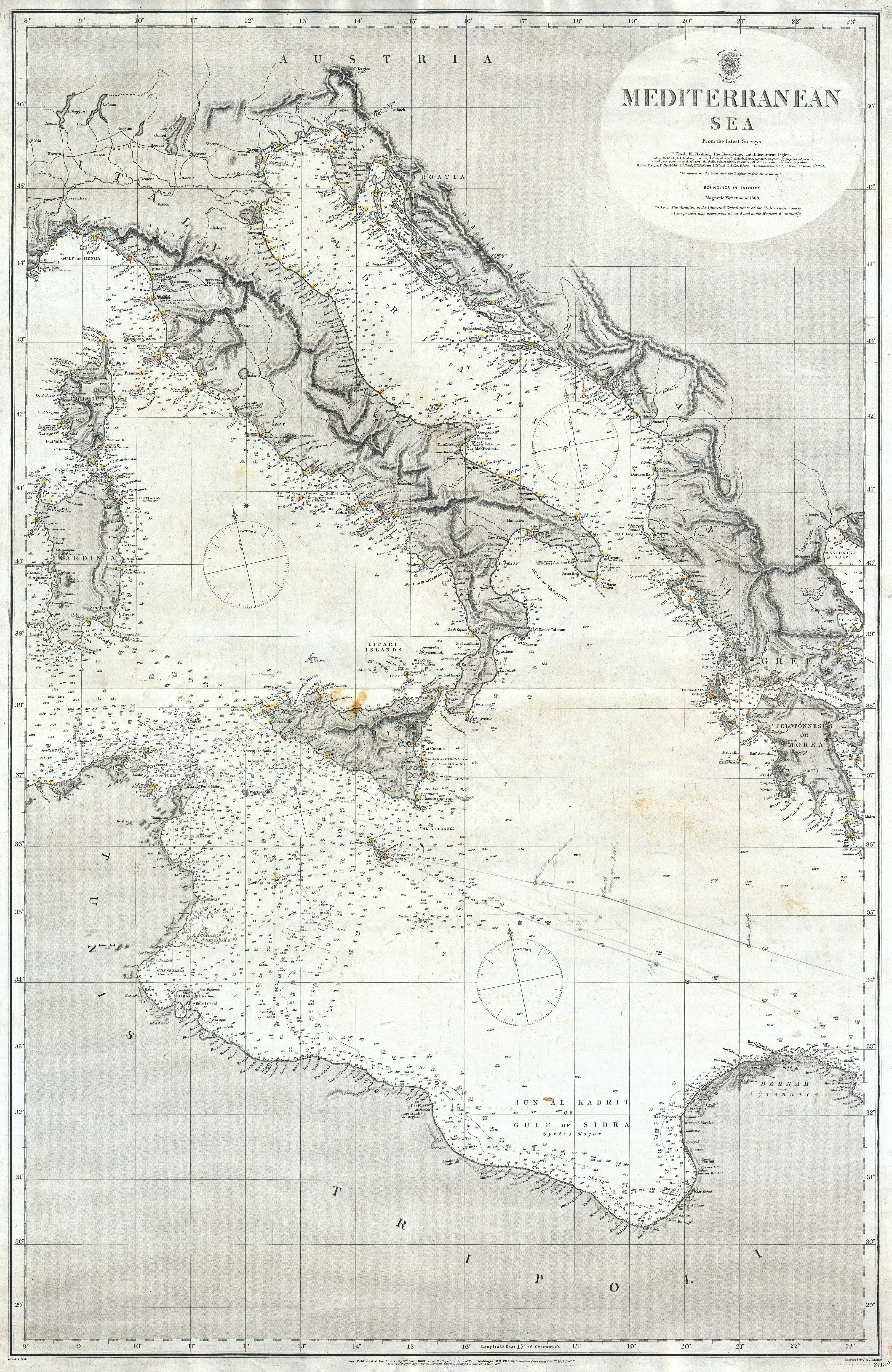 A rare and extremely attractive nautical map of the central Mediterranean Sea issued in 1868 by the British Admiralty. Covers from Corsica, Sardinia and Tunisia eastward past Italy and Sicily to detail Greece and the Adriatic Coast. Extends southward as far as the Gulf of Sidra. Features both nautical and inland detail noting both topographical features and thousands of depth soundings (in fathoms). Important ports, Island and navigational points are carefully noted. Admiralty Chart No 2718b. Engraved by J & C Walker for the British Admiralty under the supervision of Captain Washington R.N. Originally sold for half a crown by J. D. Potter, of 31 Poultry & 11 King Street Tower Hill, London, Agent for the Admiralty.